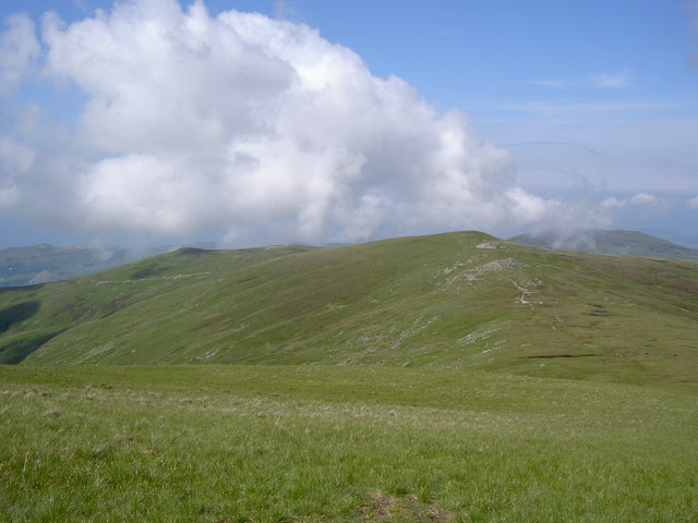 Looking back along the ridge I've walked, near to Carnedd Pen-y-dorth-Goch [antiquity (non-Roman)], Gwynedd, Wales.